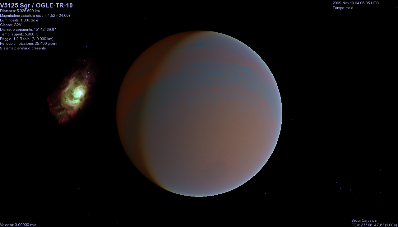 Transiting exoplanet OGLE-TR-10b with Lagoon Nebula (M8) in the background.